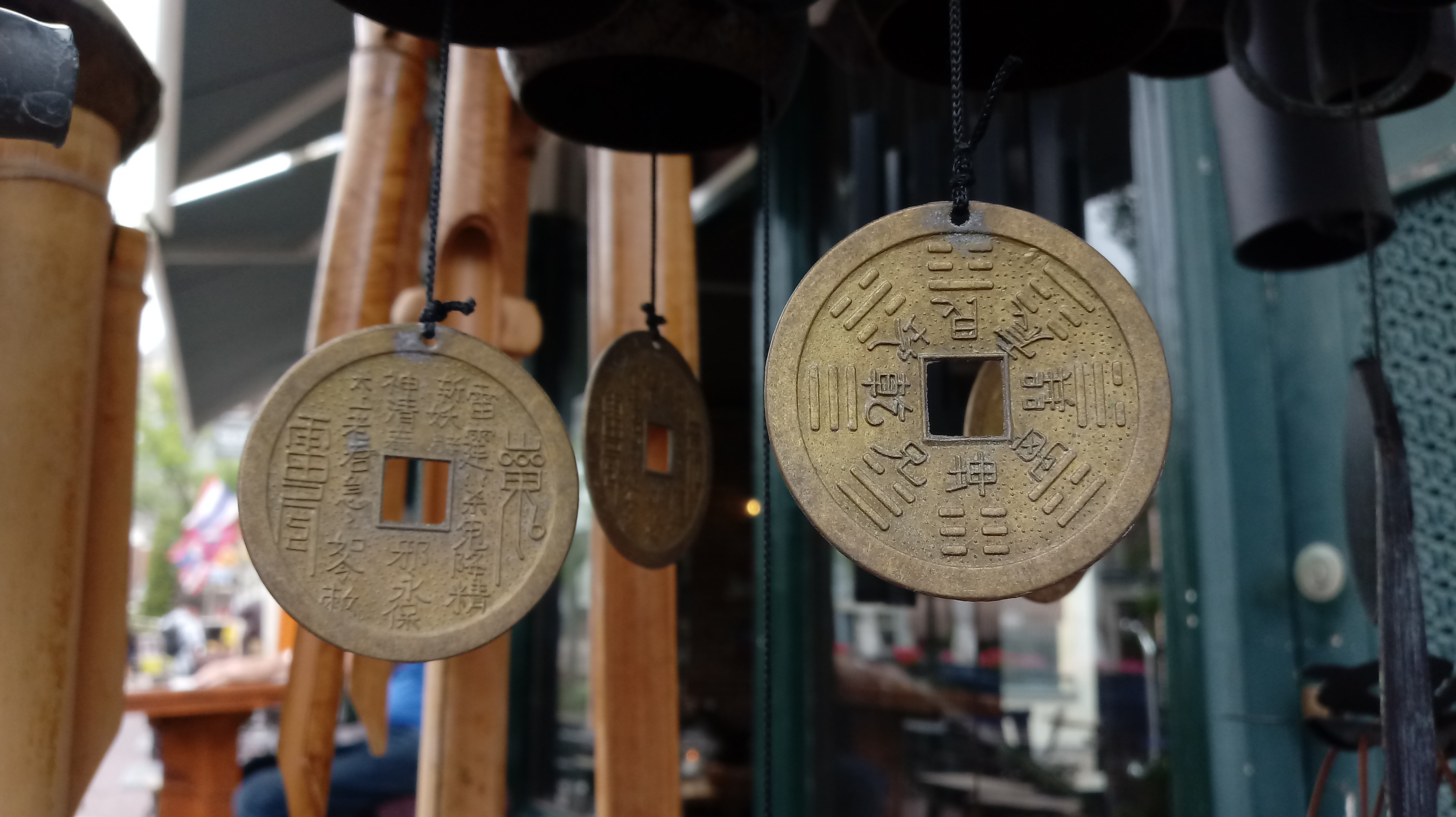 Daoist (Taoist) curse charms used to drive away evil spirits according to Chinese superstition in the city of Delft. these Chinese numismatic charms, amulets, and talismans contain the phrase "O Thunder God, destroy devils, subdue bogies, and drive away evil influences. Receive this command of Tai Shang Lao Qun (Lao Zi) and execute it as fast as Lü Ling (a famous runner of the Zhou Dynasty)" (Traditional